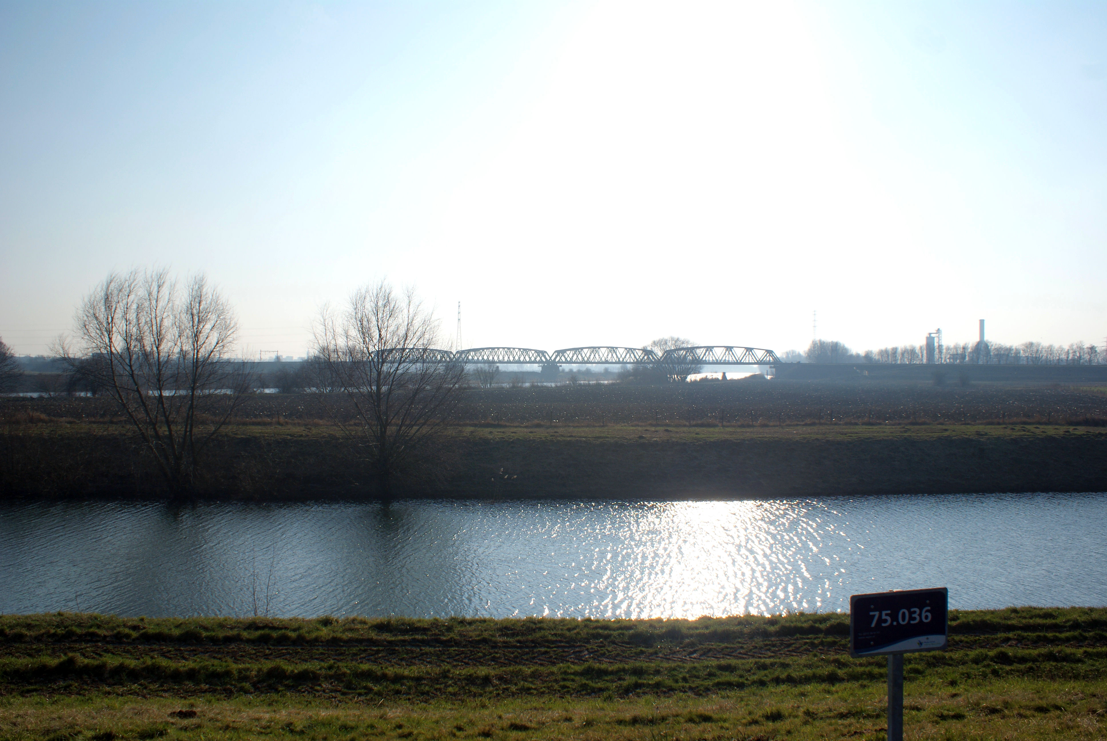 Railway bridge over the river Maas, Buggenum, Netherlands